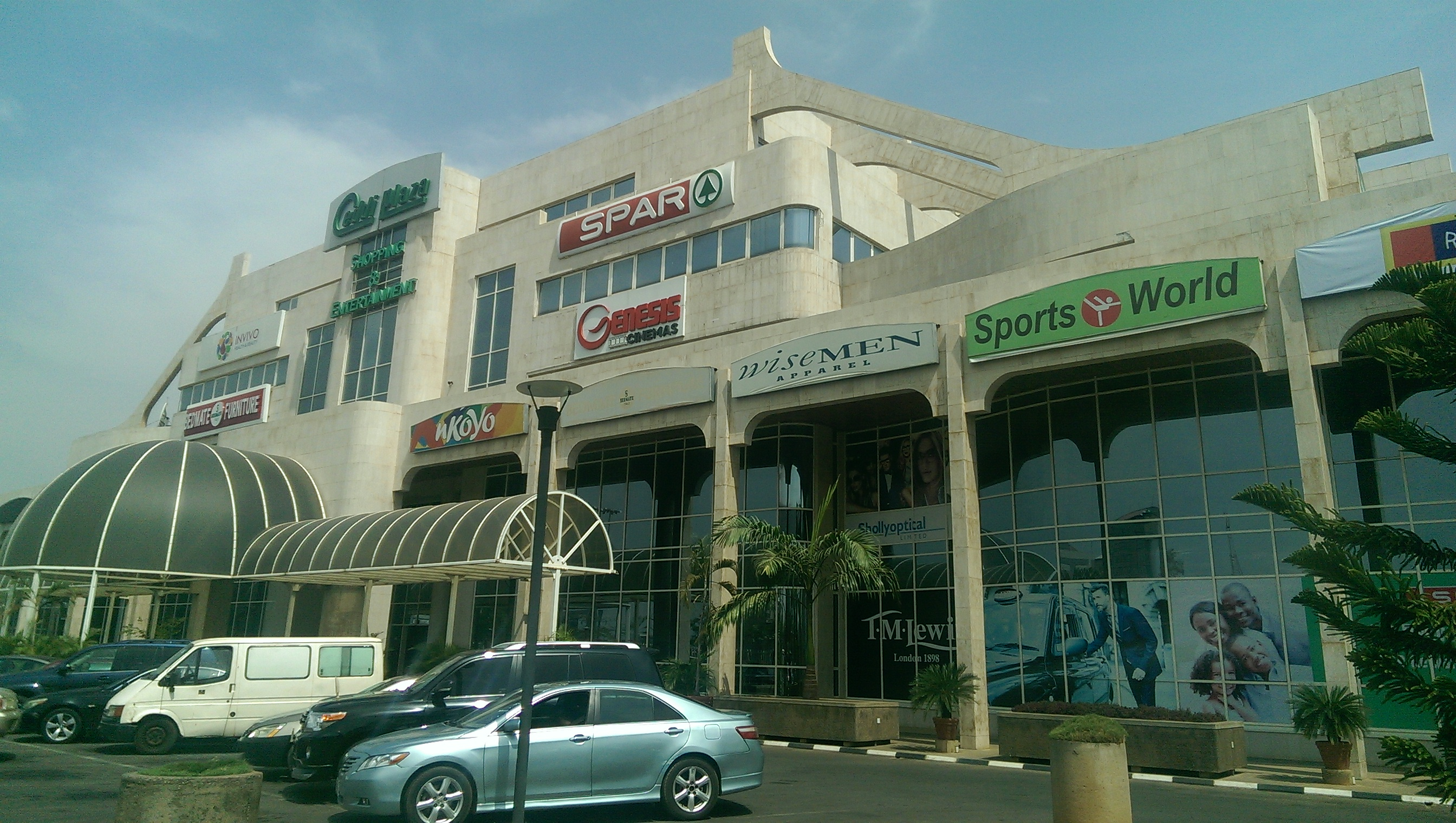 A shopping mall in the Central Area